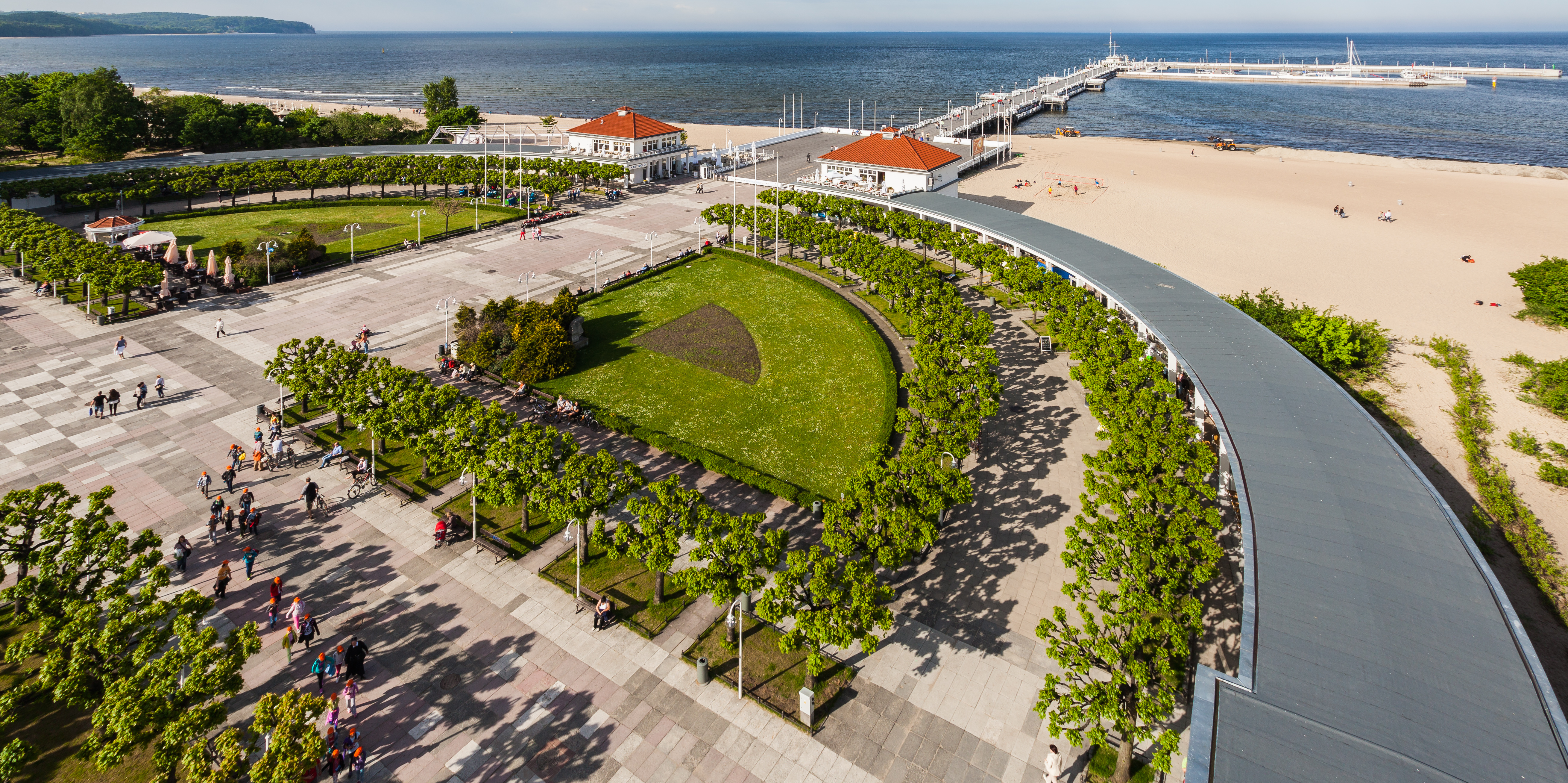 Promenade pier of Sopot, Poland